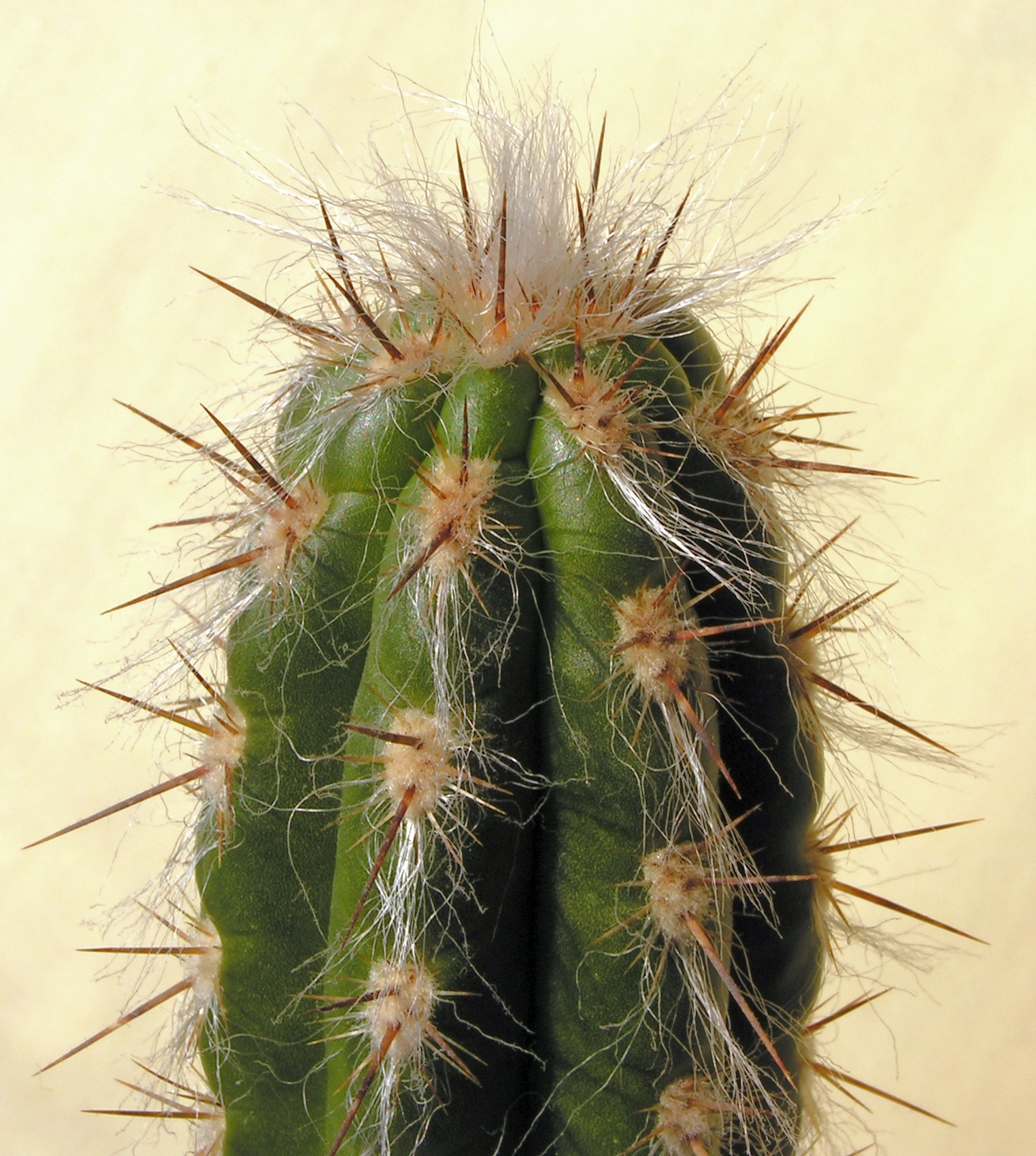 Espostoa lanata, the young plant